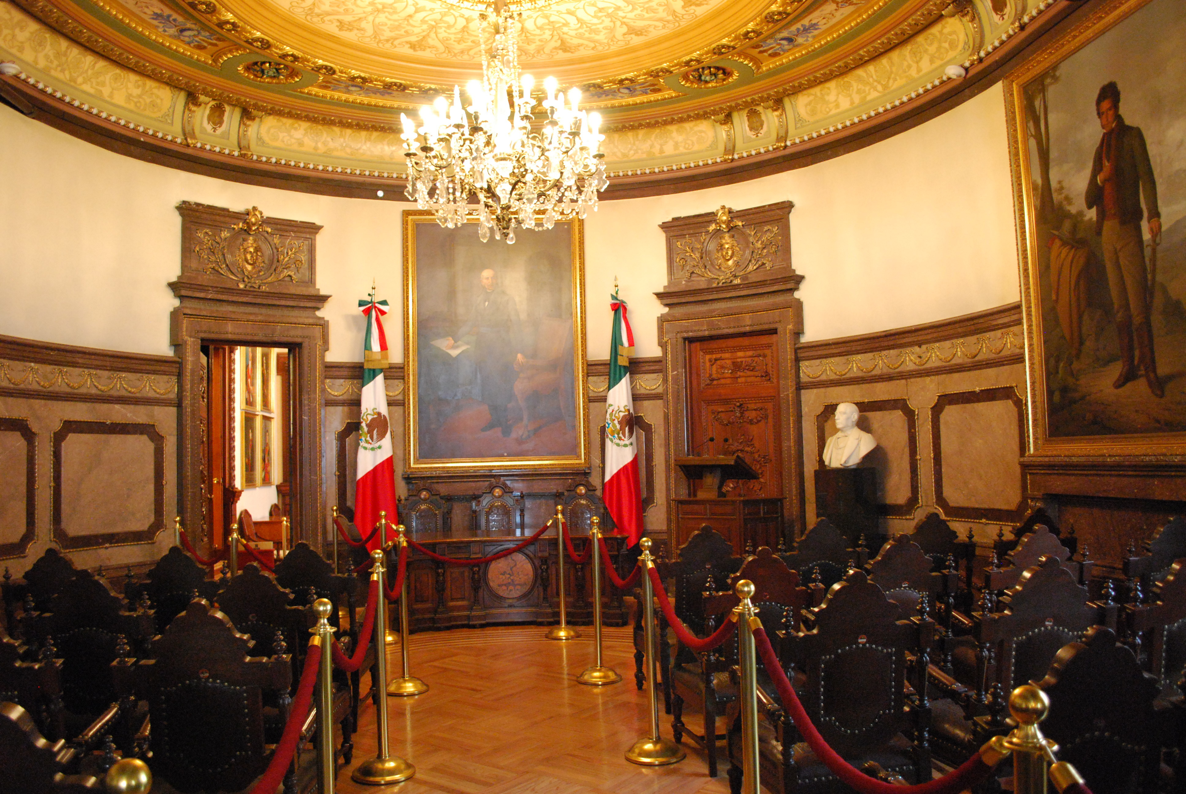 Head of the Salon de Cabildos of the Palacio de Ayuntamiento (Old Town Hall) of Mexico City